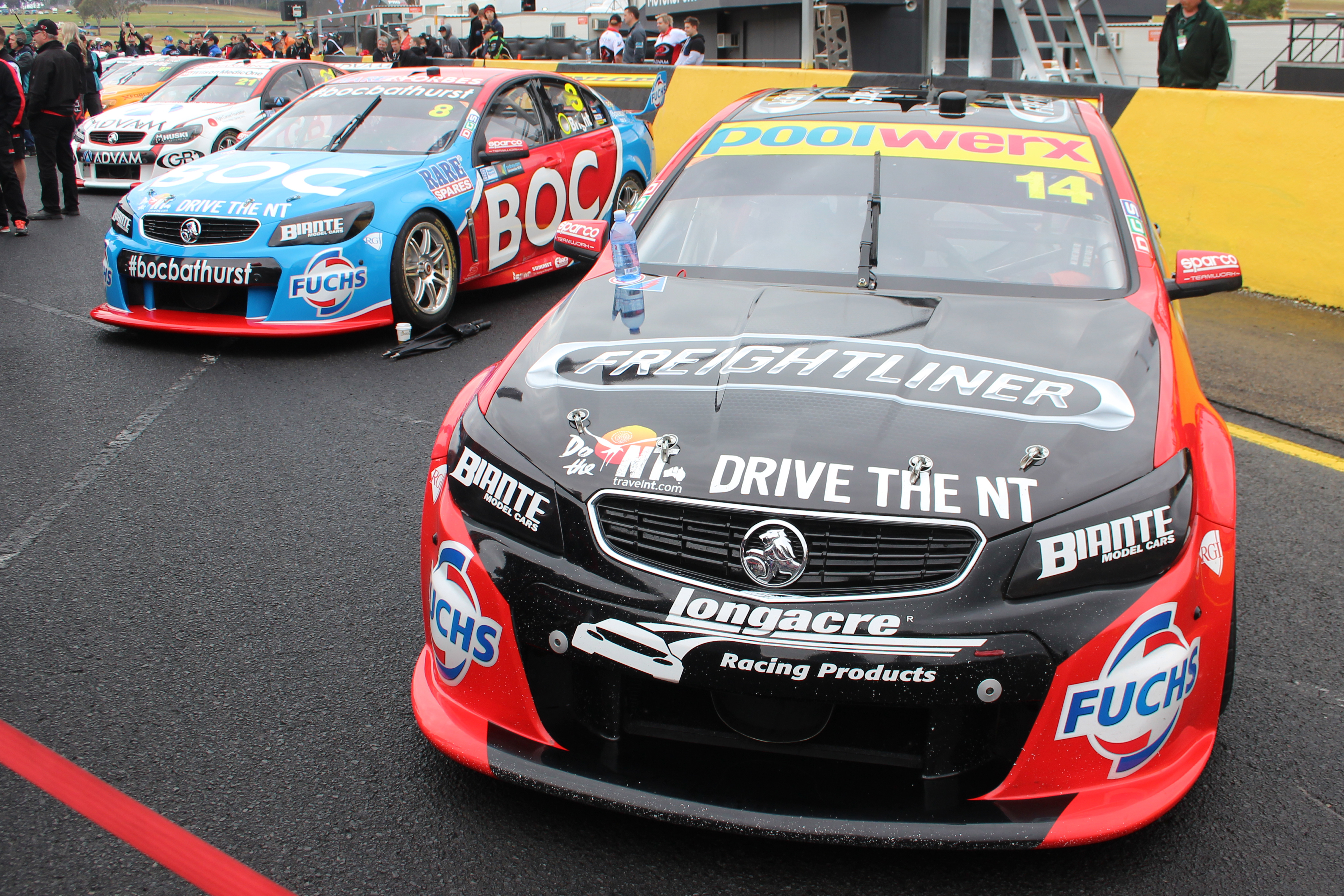 The Brad Jones Racing-prepared cars of Fabian Coulthard, Jason Bright and Dale Wood at the 2015 Sydney Motorsport Park Super Sprint.